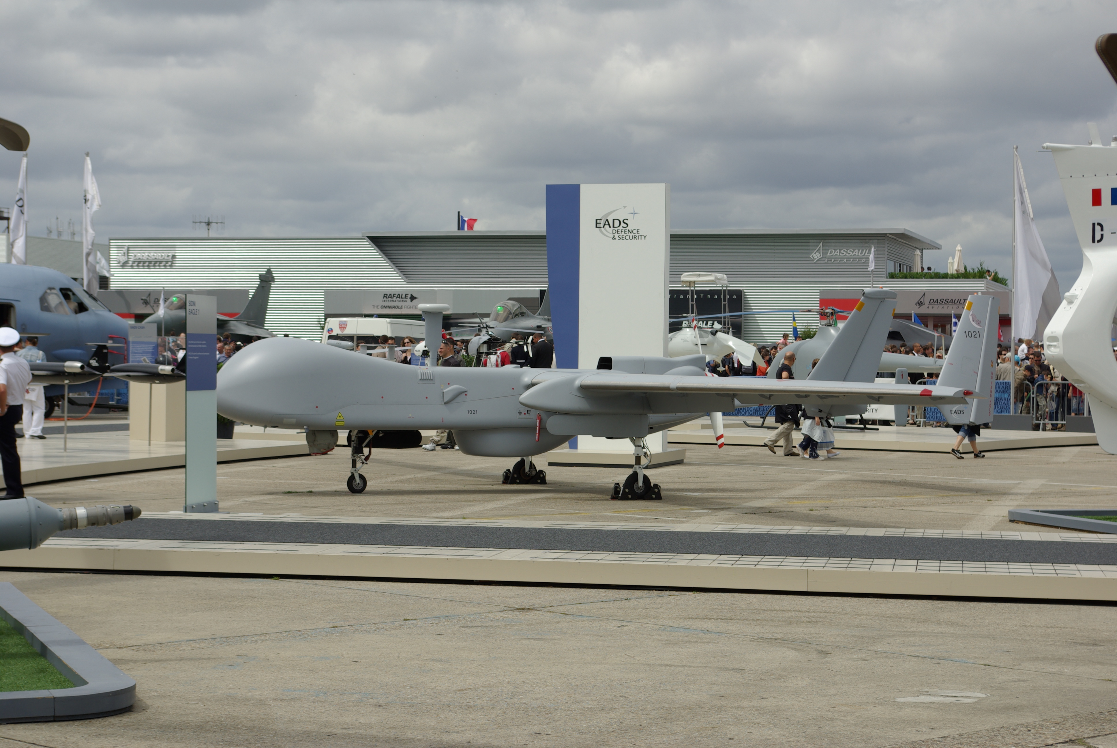 UAV EADS Eagle 1